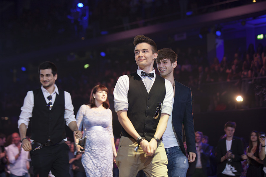 Team TubeClash on Webvideopreis 2015: Alican Kuzu, Nina Benz, Marik Roeder, Dennis Kostas Weiß (from left to right